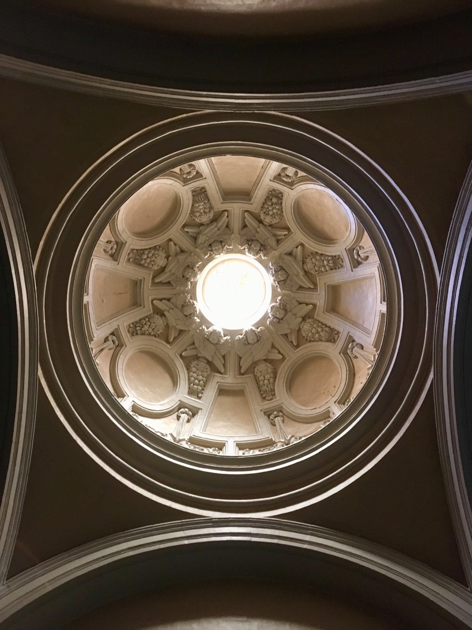 Dome at the Jesuits Church, Valletta